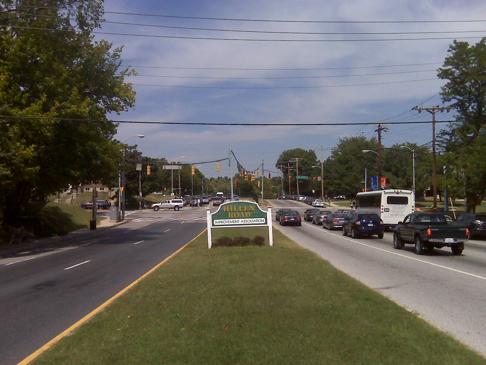 View of MD 41 (Hillen Road) from its median, in front of Morgan State University and near the Cold Spring Lane intersection. The road is considerably less congested than it is normally.